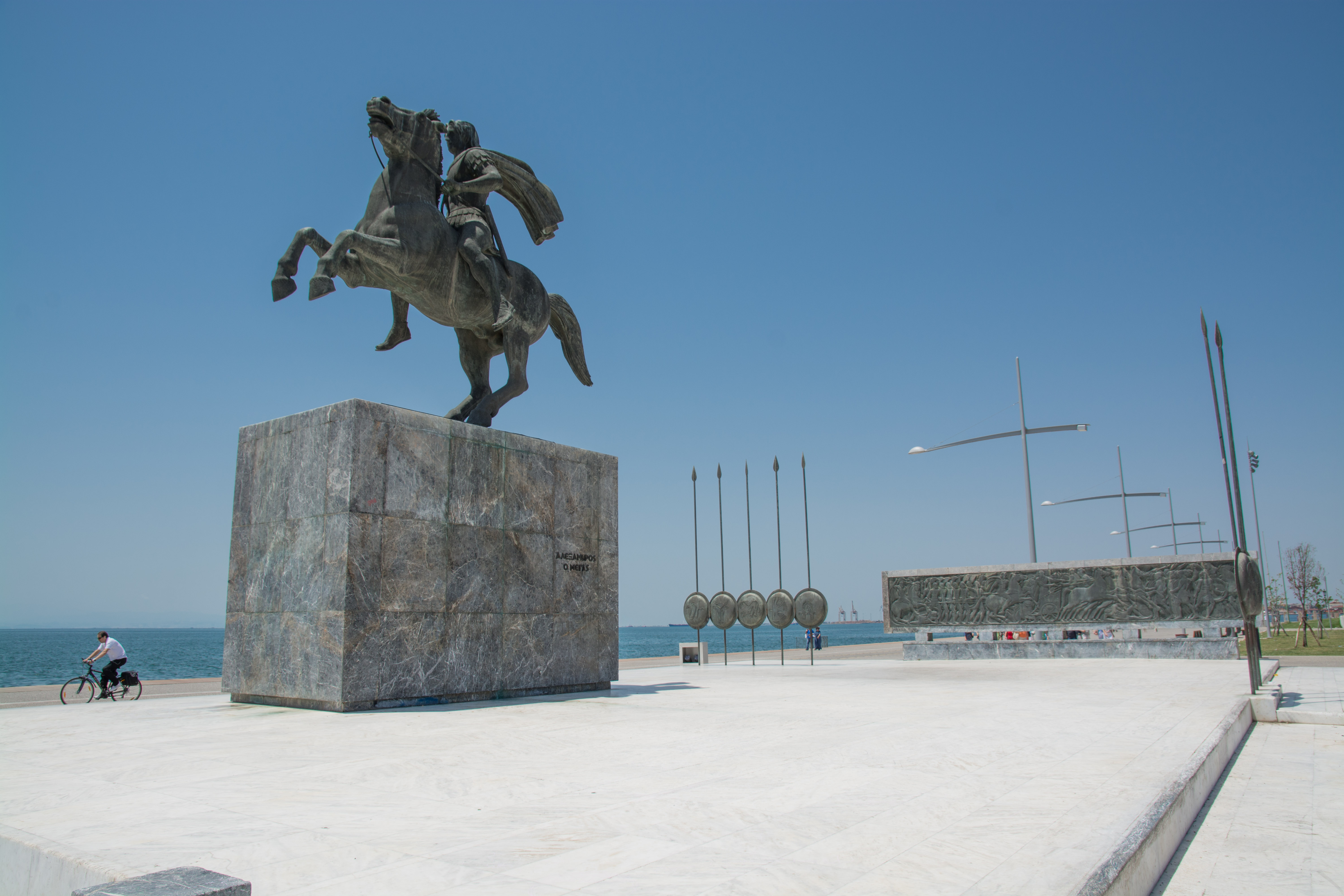 Θεσσαλονίκη 2014 (The Statue of Alexander the Great)